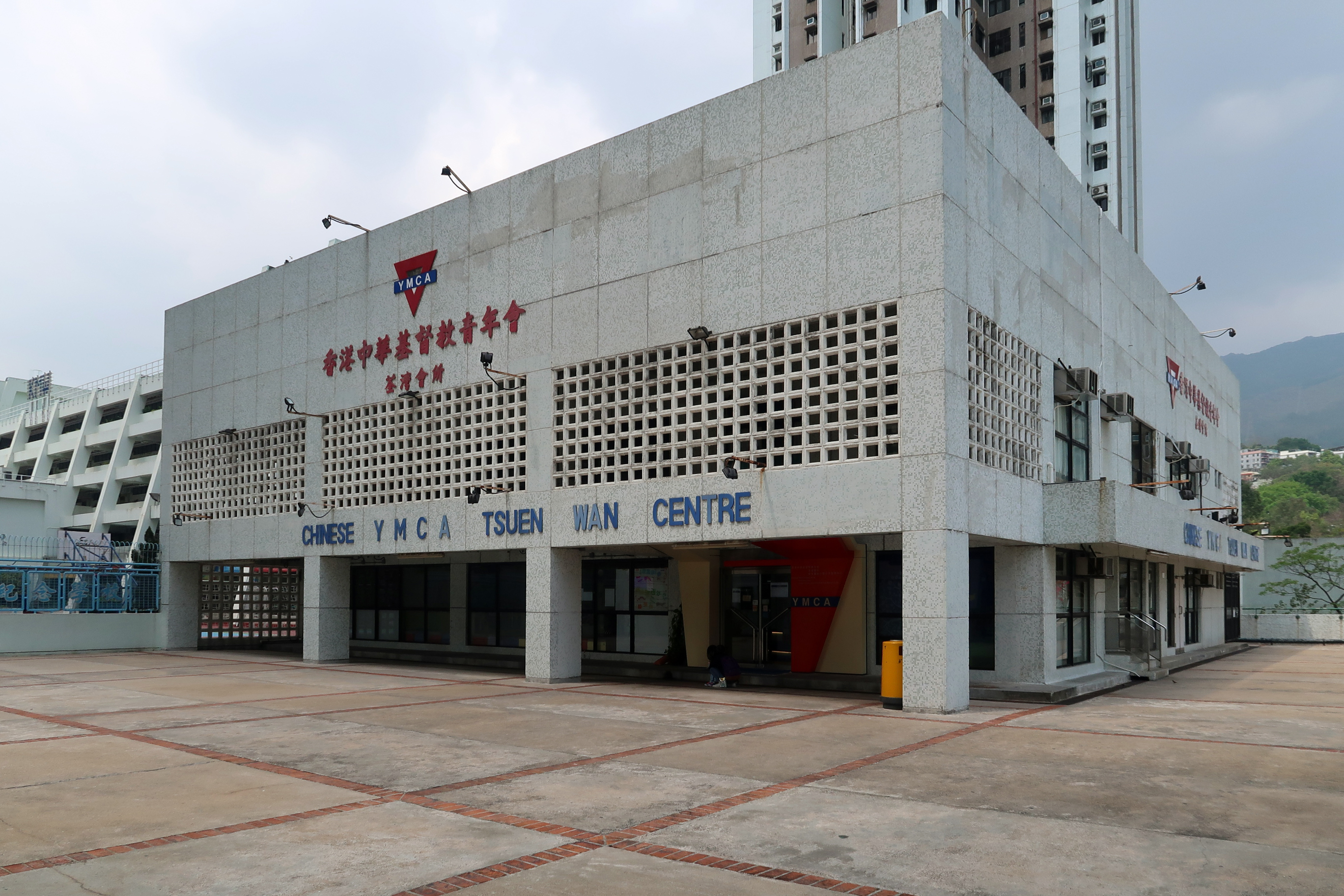 Chinese YMCA Tsuen Wan Centre